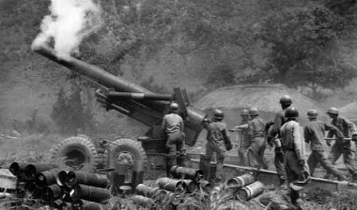 Eighth Army M-115 8-inch howitzer during a fire mission against Chinese targets, 10 June 1951.